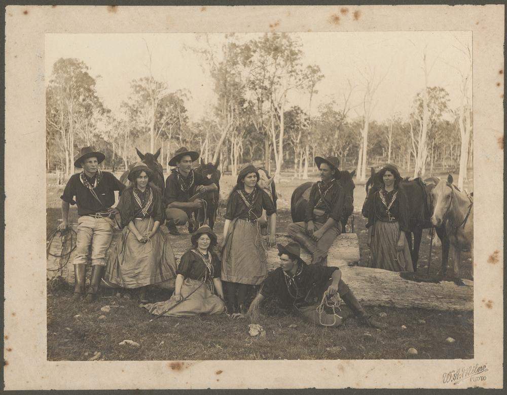 Wild West troupe in Maryborough, 1913 The group of uniformed horseriders are possibly Americans and members of Captain Ike Rose's Historical Wild West which toured Australia for Wirth Bros Circus. (Description supplied with photograph.).